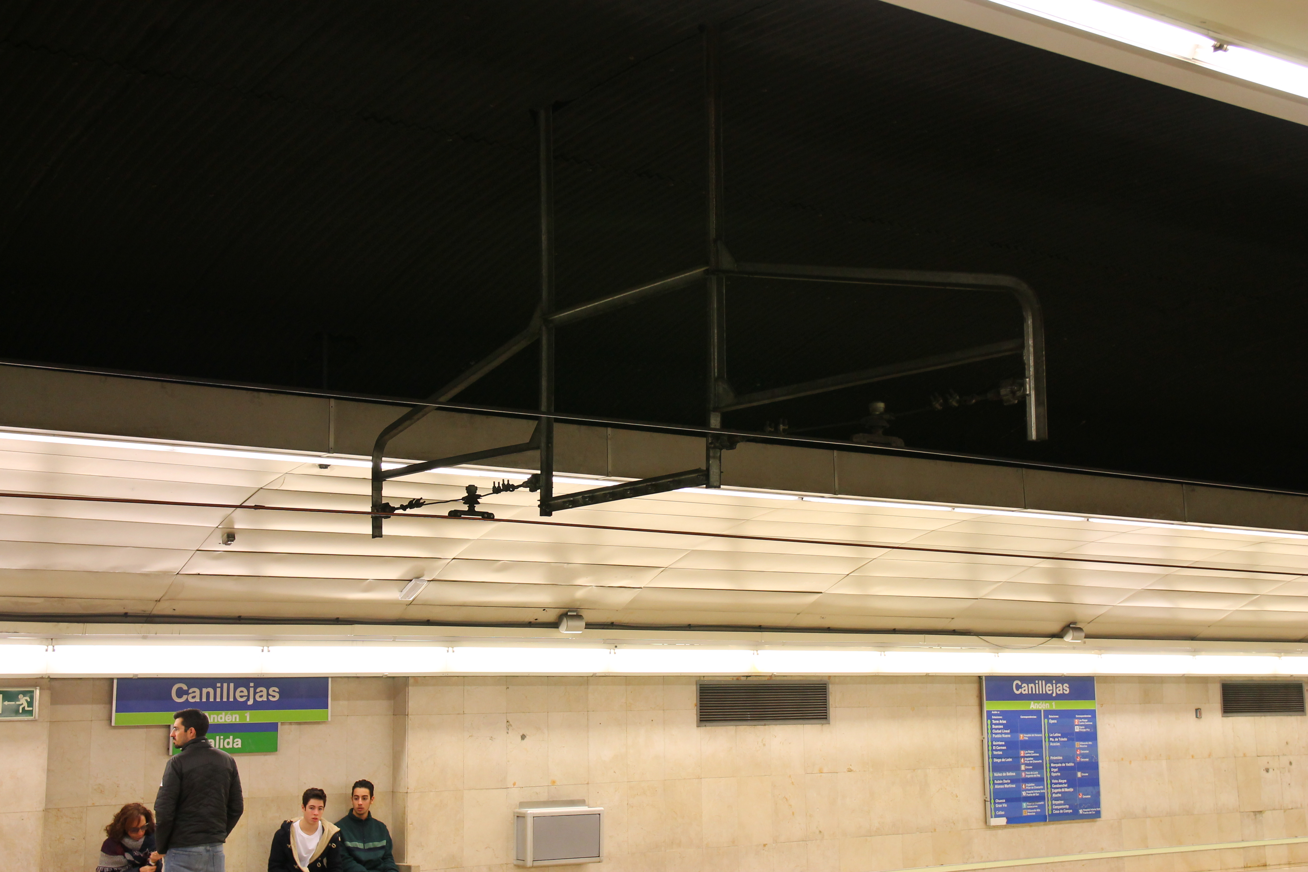 Estación de Canillejas